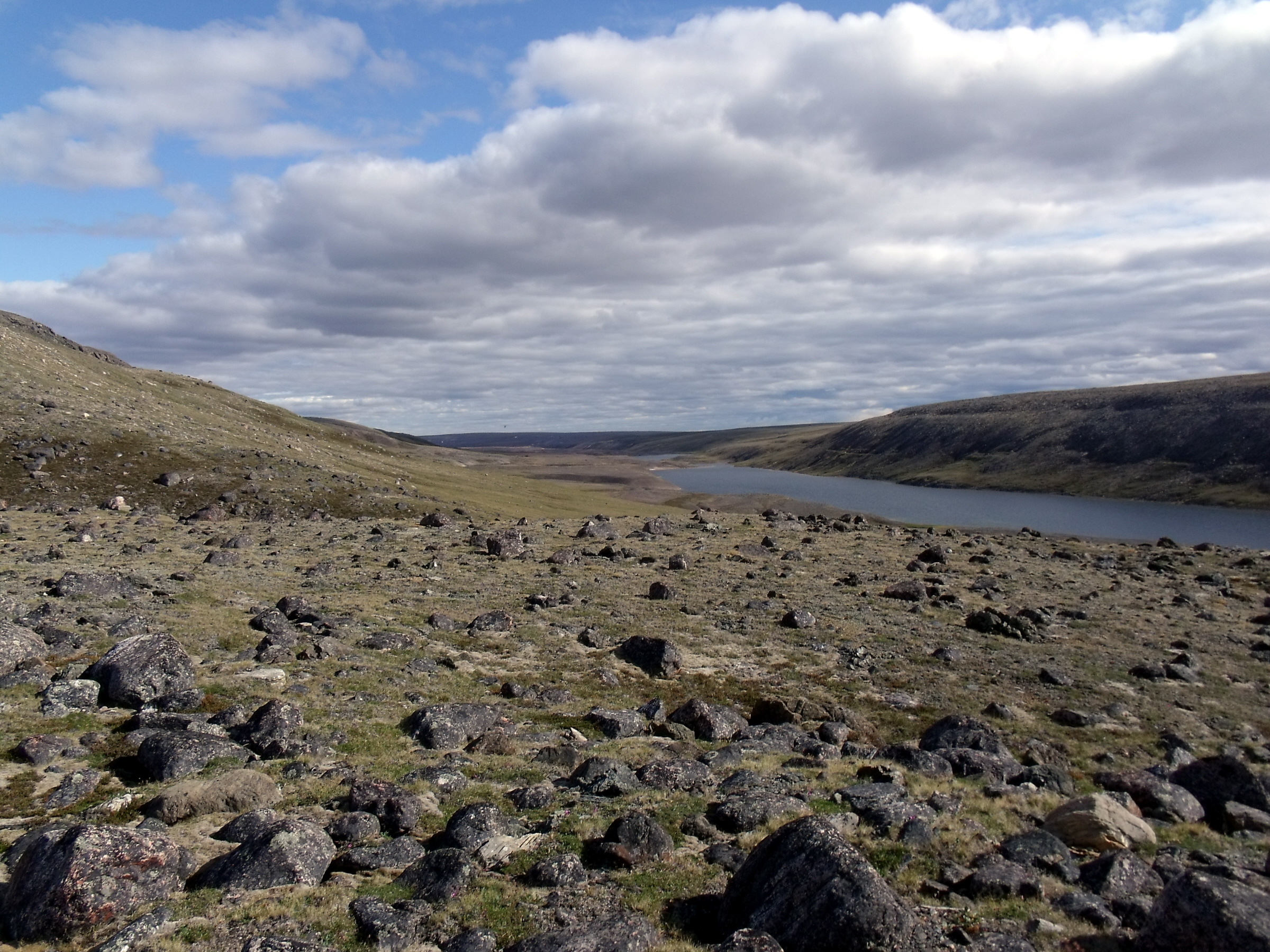 Looking southeast down the CBFZ, a pronounced lineament in northcentral Baffin Island. Ancient, all-beat-up Precambrian rocks comprise the higher ground along the left side and flat-lying Paleozoic limestone underlay the plains to the right. About 2 billion years of time are missing in between. Not much vegetation out there, what with reindeer moss + lichened boulders underfoot and sparsely-grassed plains yonder.